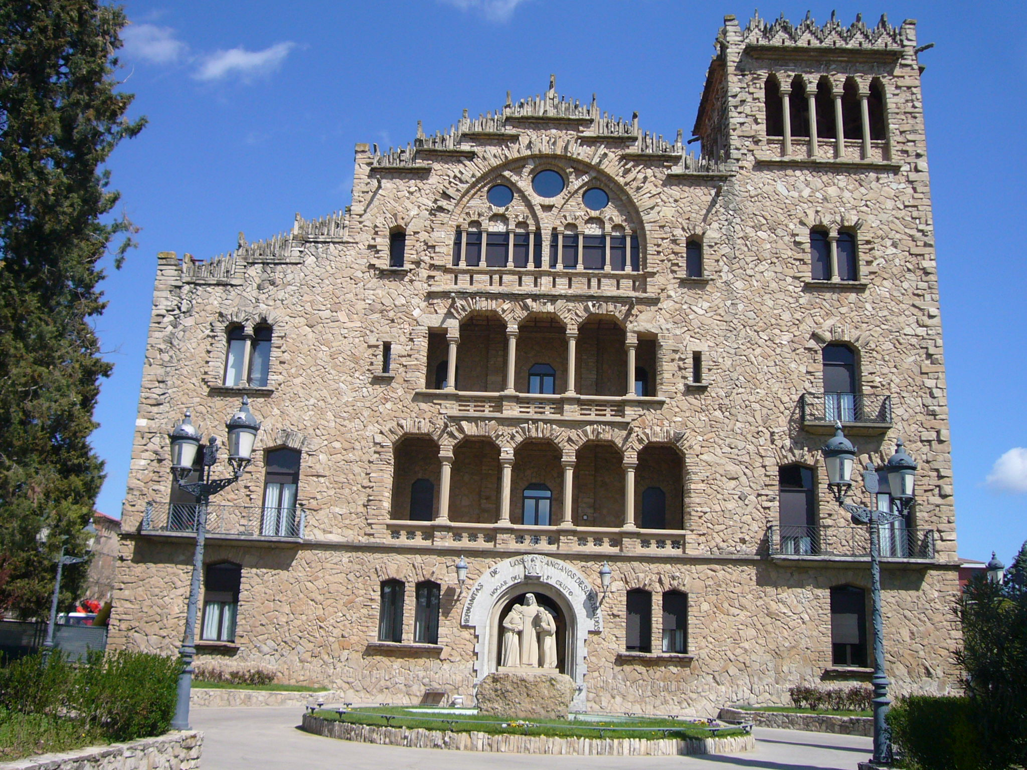 Asil del Sant Crist, Igualada, Catalonia